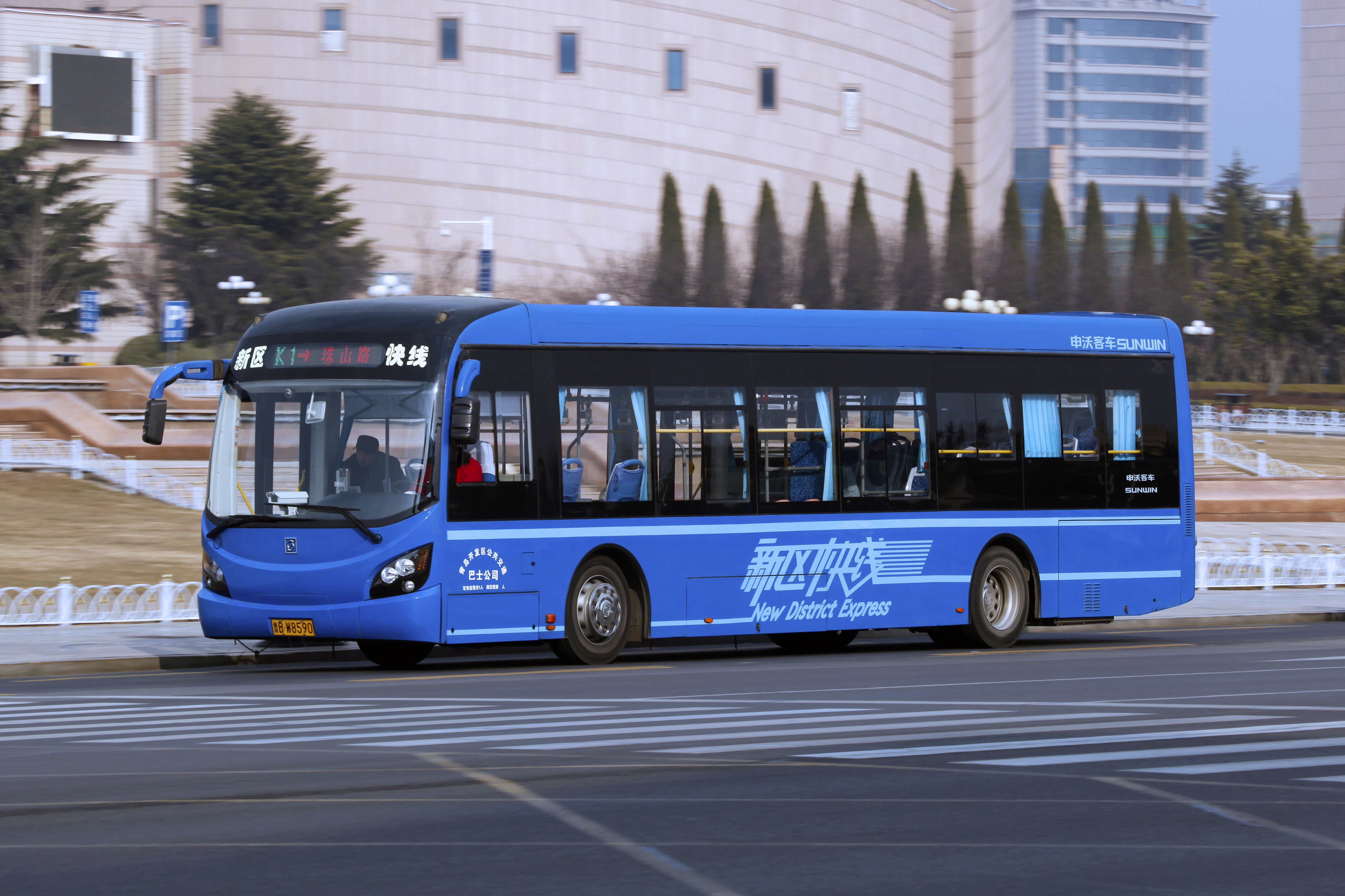 Qingdao Development Zone Bus K1 | Sunwin | SWB6121EV6 (Wheelchair Accessible Low-entrance) | ChangJiang Road (Middle) 青島經濟技術開發區（黃島）公交K1路 | 上海申沃客車 | SWB6121EV6 (無障礙低入口車輛) | 長江中路鳳山路